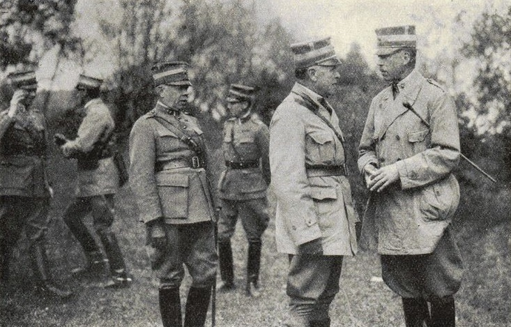 Cavalry Organization Experiments in the Skövde region: in the front row from left Colonel C. Knös, General Lennart Lilliehöök and Cavalry Inspector General Göran Gyllenstierna; the far line Lieutenant Colonel H. G. R. Peyron, Major F. S. A. Ryman and Major Å. K. W. Hök.